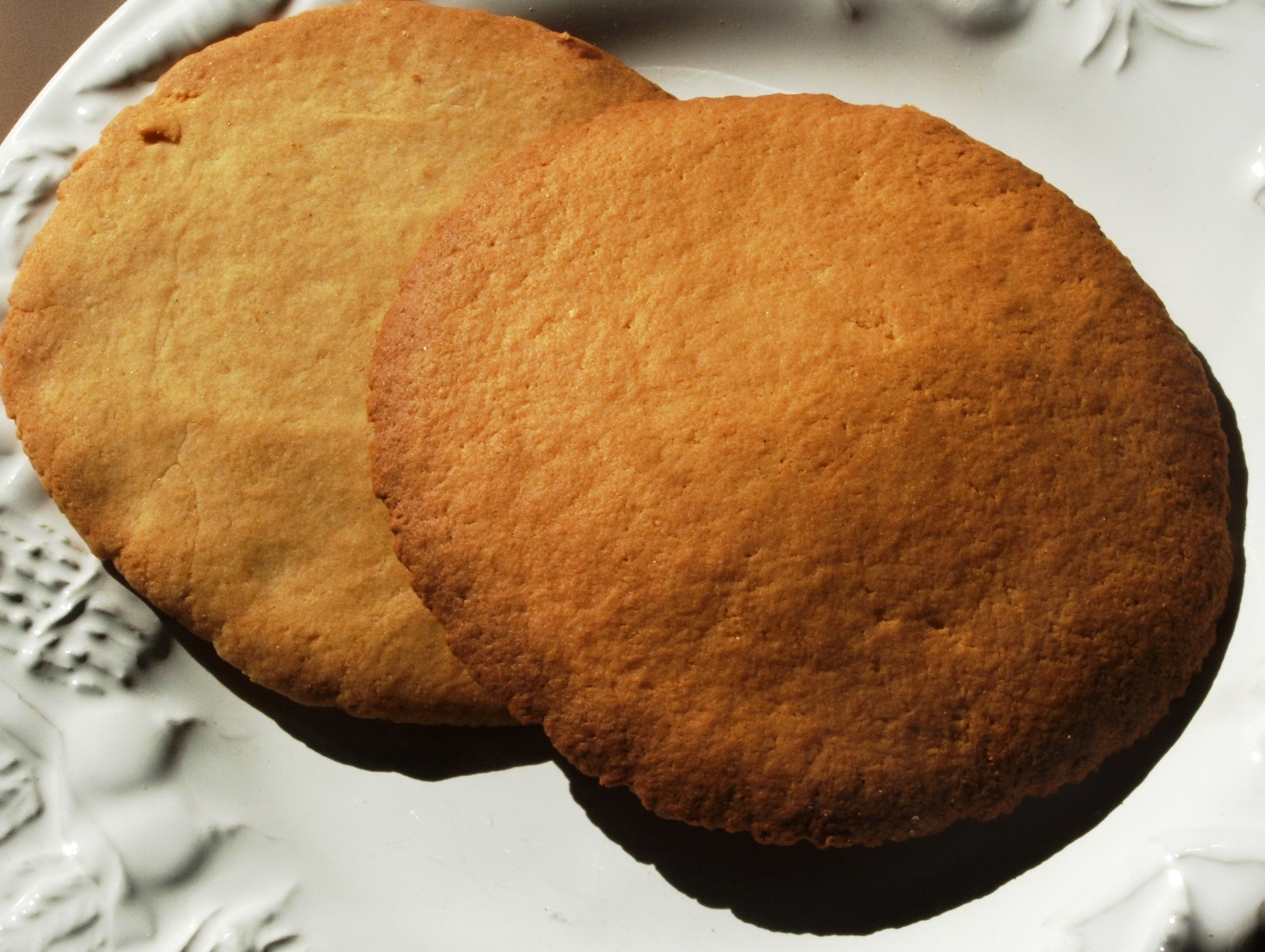 Coyotas are Mexican sugar cookies originating in the 19th Century in the state of Sinaloa, Mexico. The version appearing here are baked in the style of Hermosillo, Sonora, Mexico.